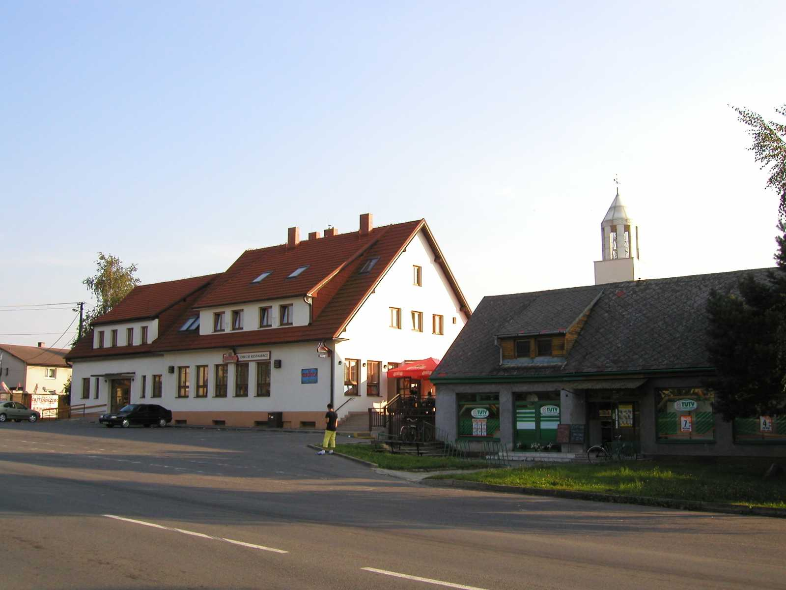 Shop and municipal restaurant, Kozmice